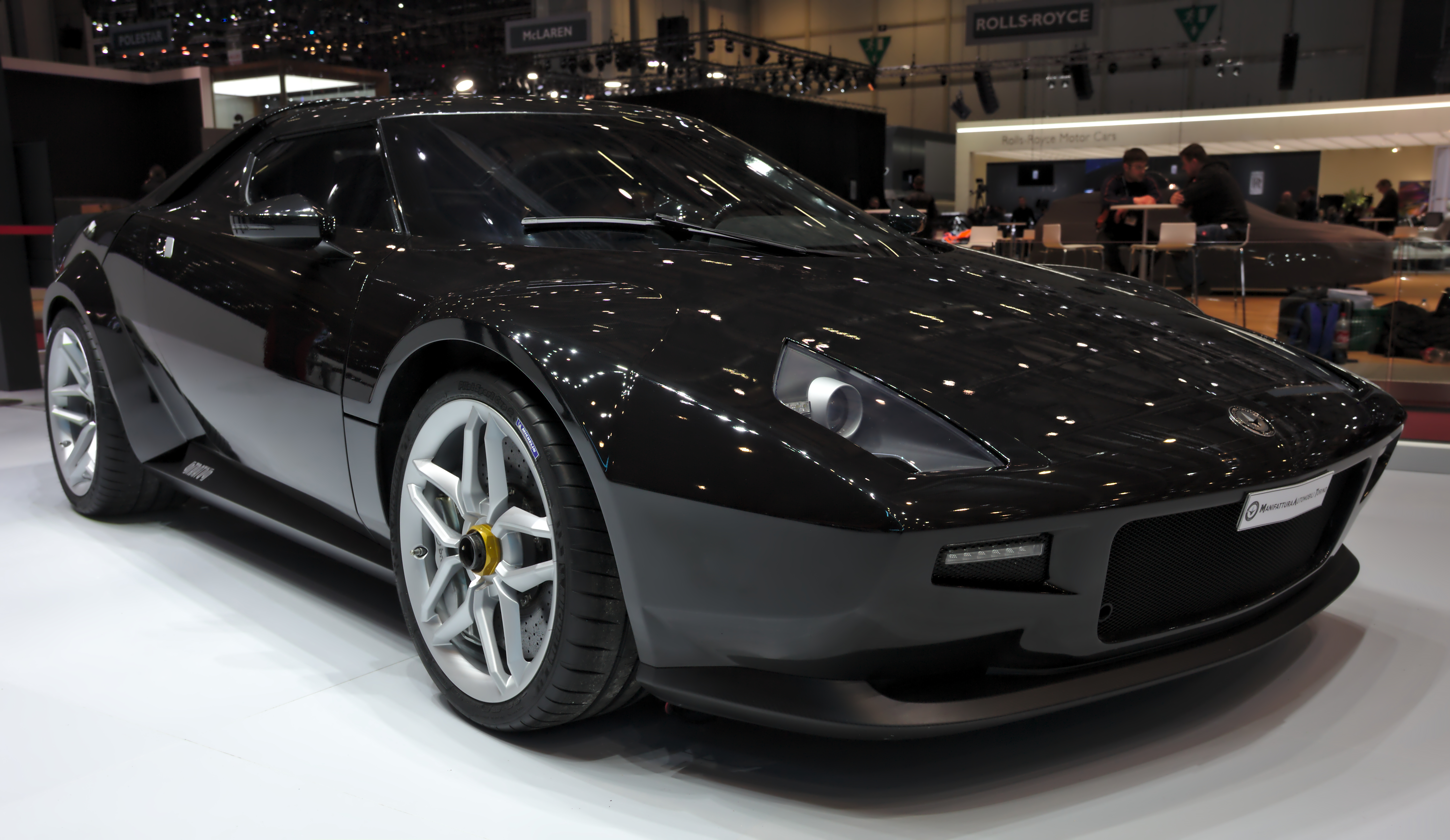 New Stratos at Geneva Motor Show 2018